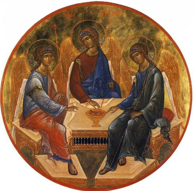 A book miniature depiction of Andrei Rublev's Trinity, Russia